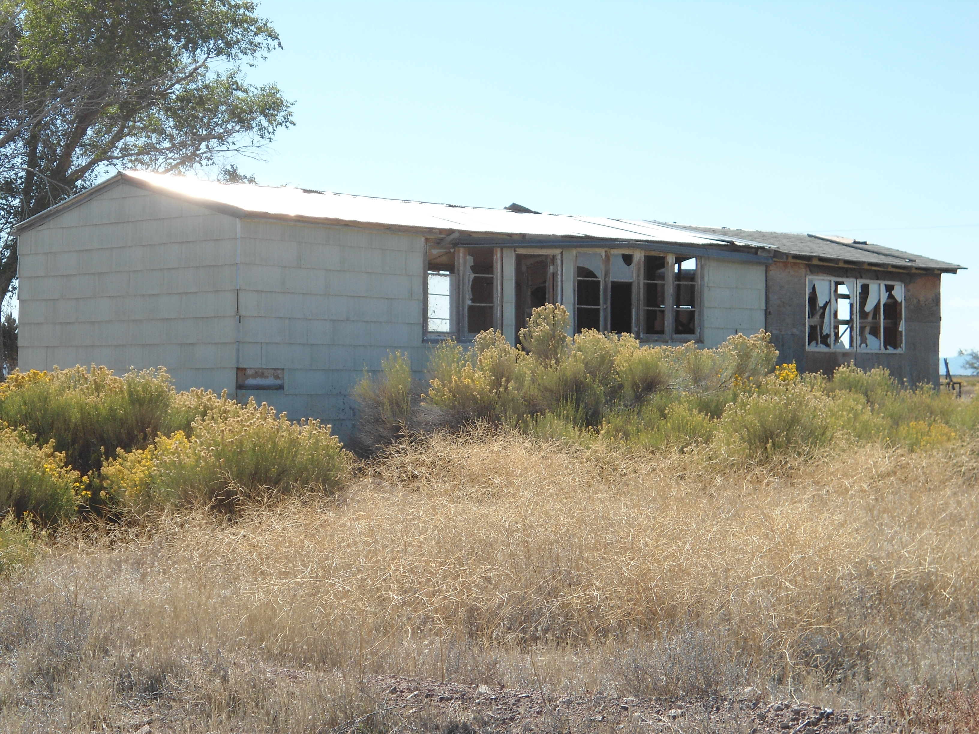 Forgot To Clean The Windows